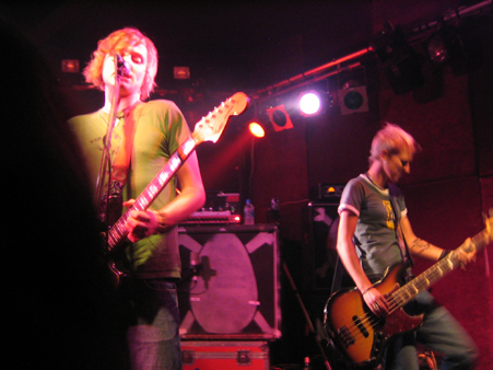 Live photo of the Australian alternative rock band Jebediah.